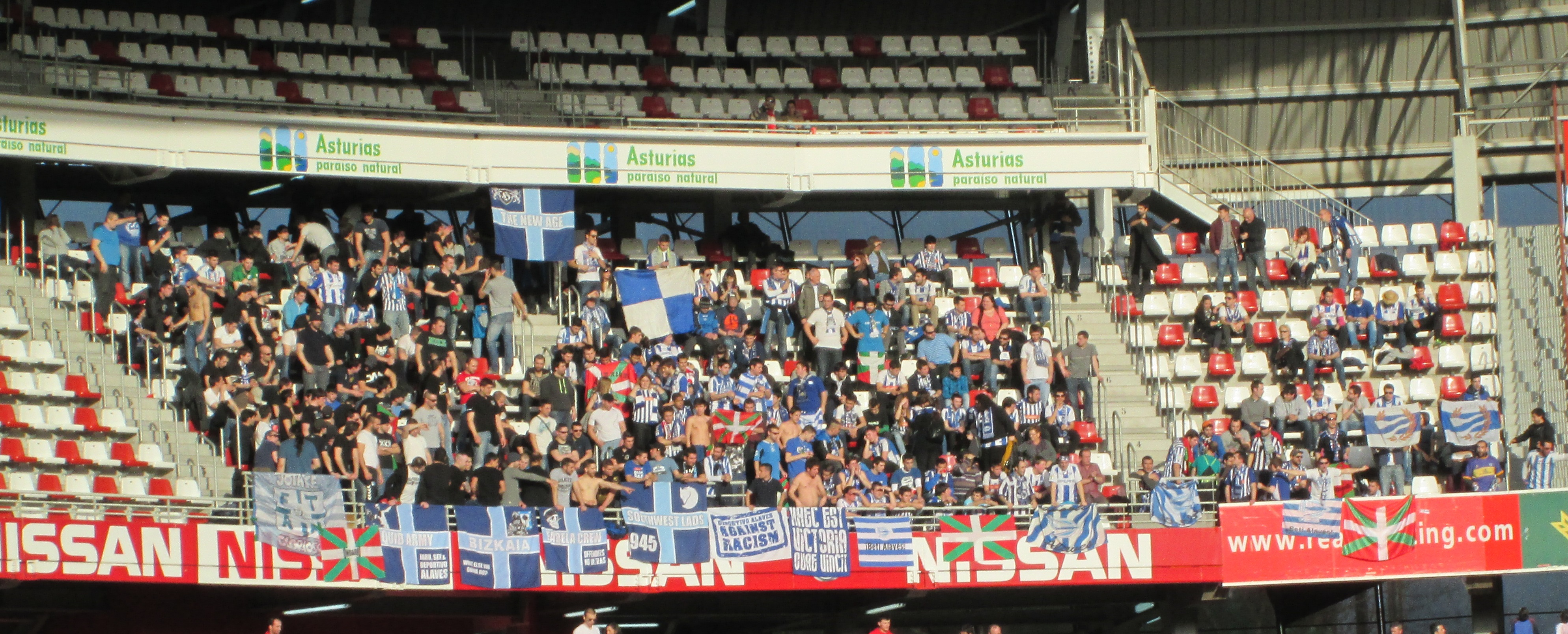 Alavés fans attending a Segunda División game at El Molinón